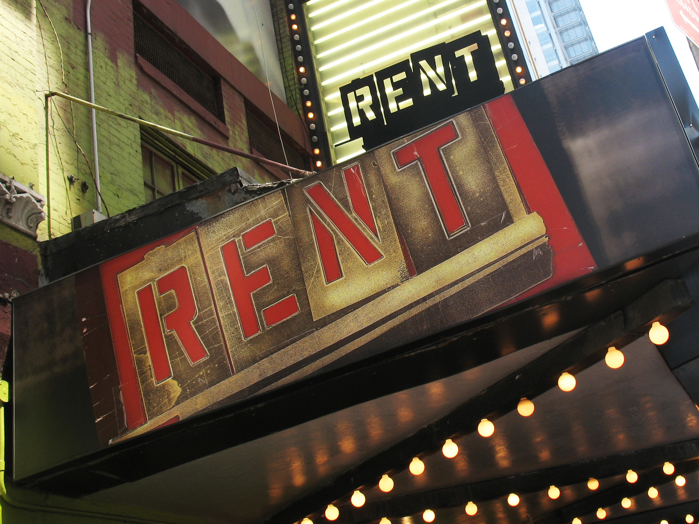 Rent at Nederlander Theatre in Broadway